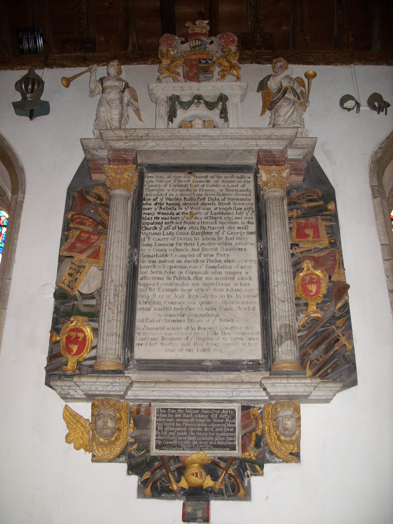 Mural monument to Sir Bevil Grenville (1596-1643), south wall of Granville Chapel in Church of St James the Great, Kilkhampton, Cornwall. Erected in 1714 by his grandson George Granville, 1st Baron Lansdown (1666-1735) (J. Horace Round, Family Origins and Other Studies, ed. Page, William, 1930, The Granvilles and the Monks, p.142). Above left hangs his funeral helm, above right his funeral gauntlets.